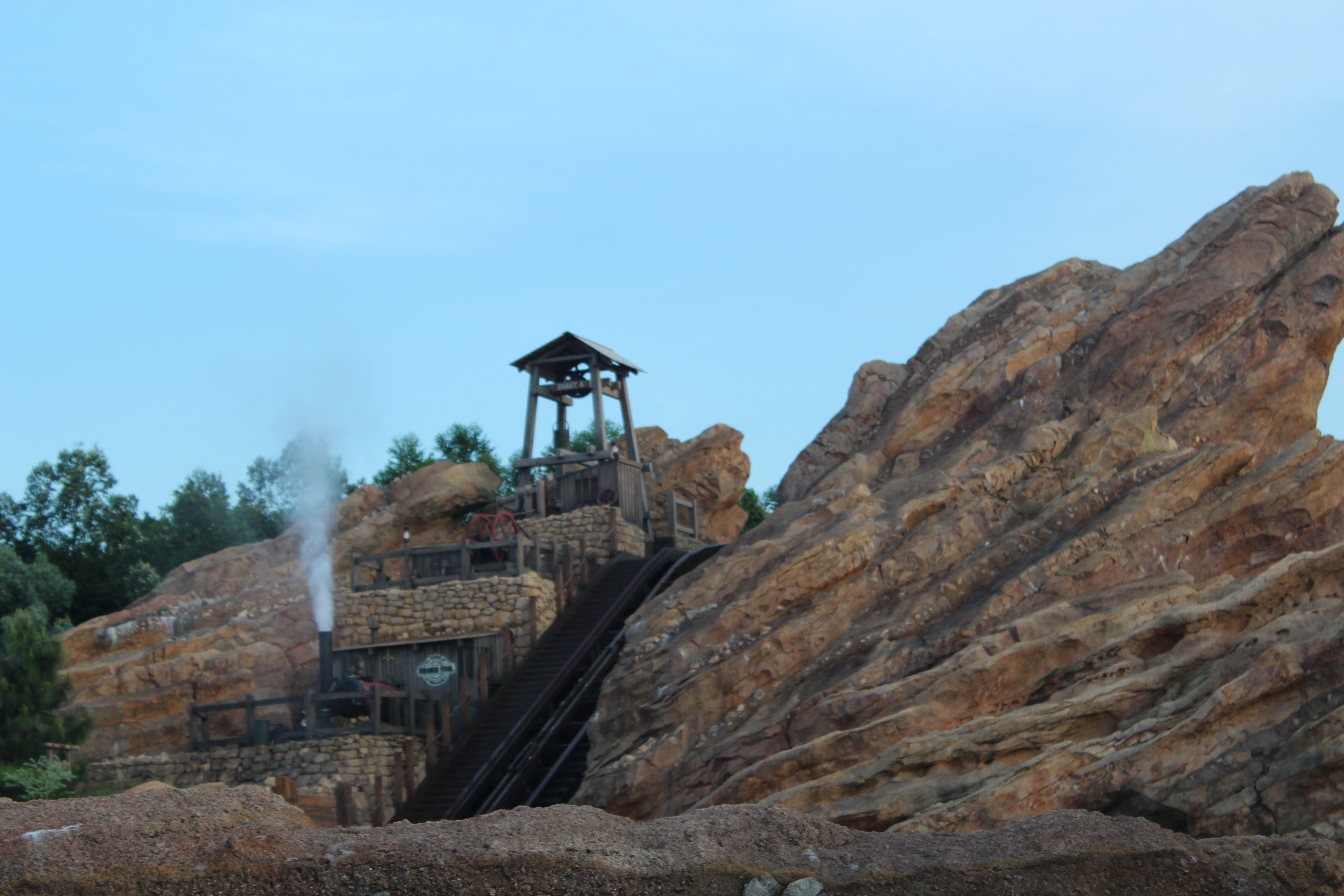 Big Grizzly Mountain Runaway Mine Cars, Grizzly Gulch at Hong Kong Disneyland, Hong Kong